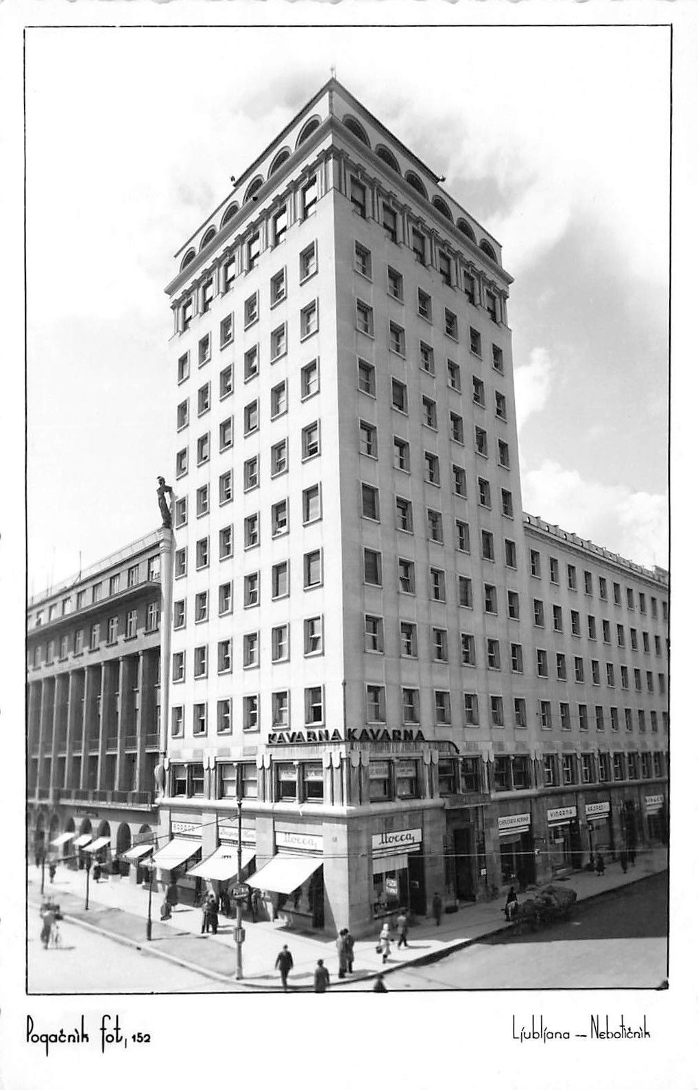 Postcard of Nebotičnik.